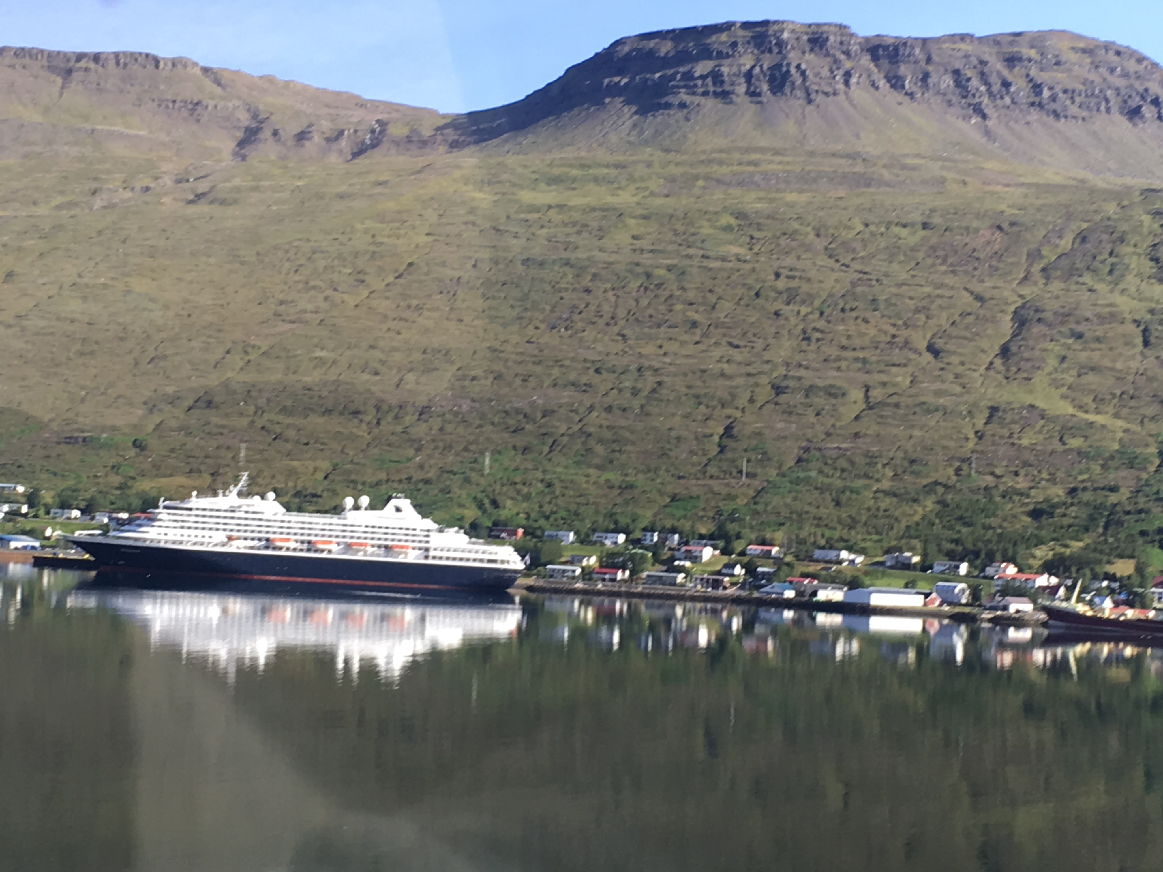 Eskifjörður with cruise ship Prinsendam at its wharf, 2017